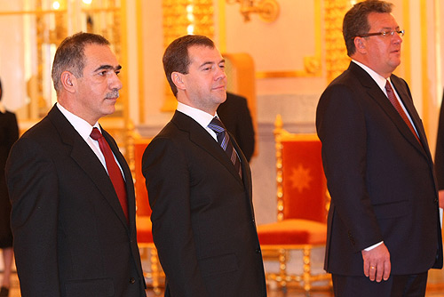 THE KREMLIN, MOSCOW. Presentation ceremony of foreign ambassadors’ letters of credentials. With Ambassador of the Republic of Cyprus Petros Kestoras. On the right is Presidential Aide Sergei Prikhodko.